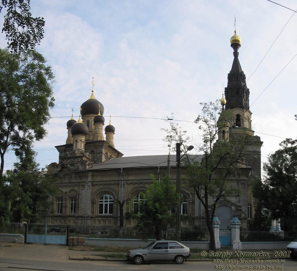 Temple of Kasperovskaya Mother of God